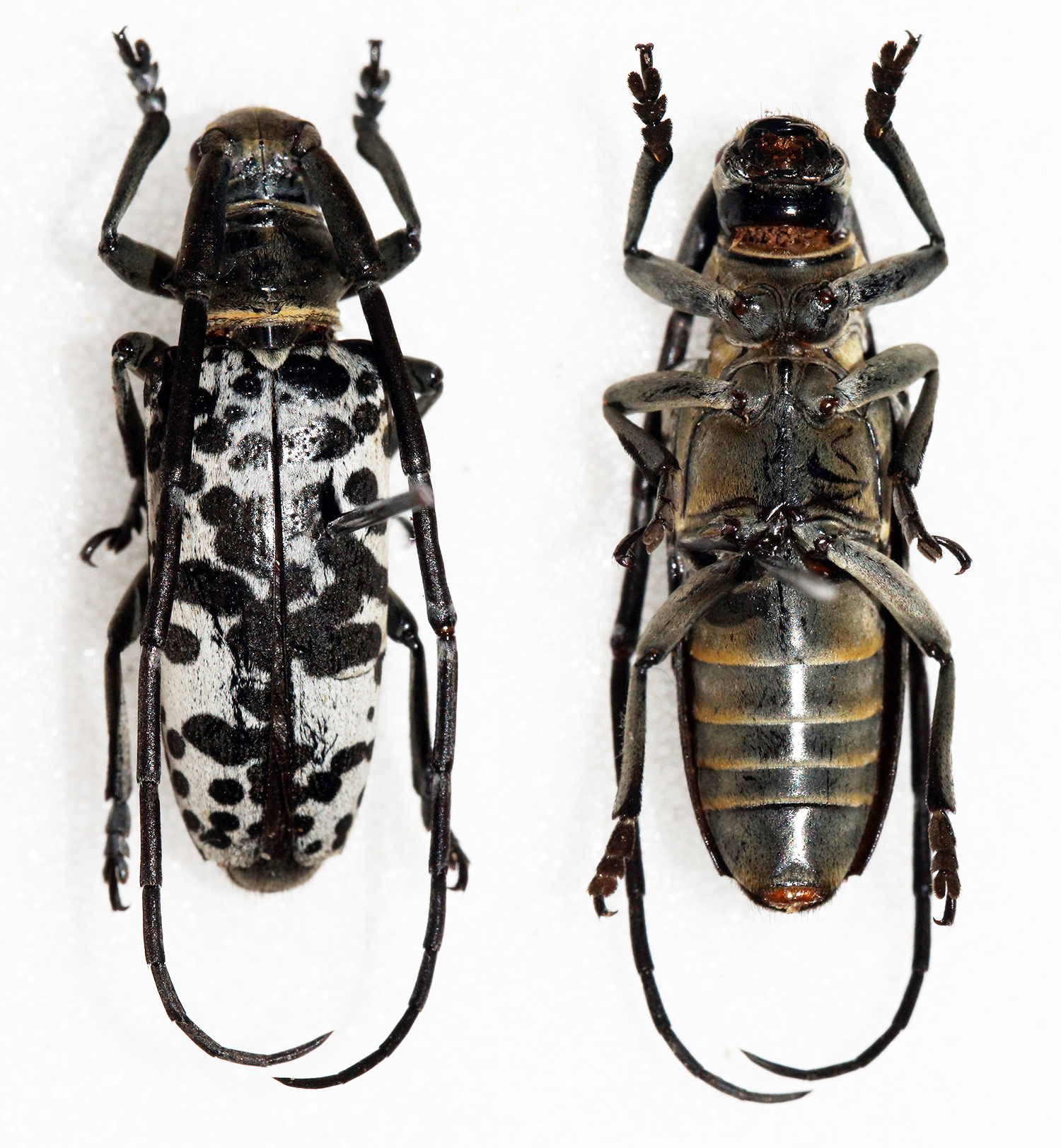 Newman,1842 Sex: Male Data: 08-2013 - Belance - Nueva Vizcaya - North Luzon - Philippines Size: 18mm